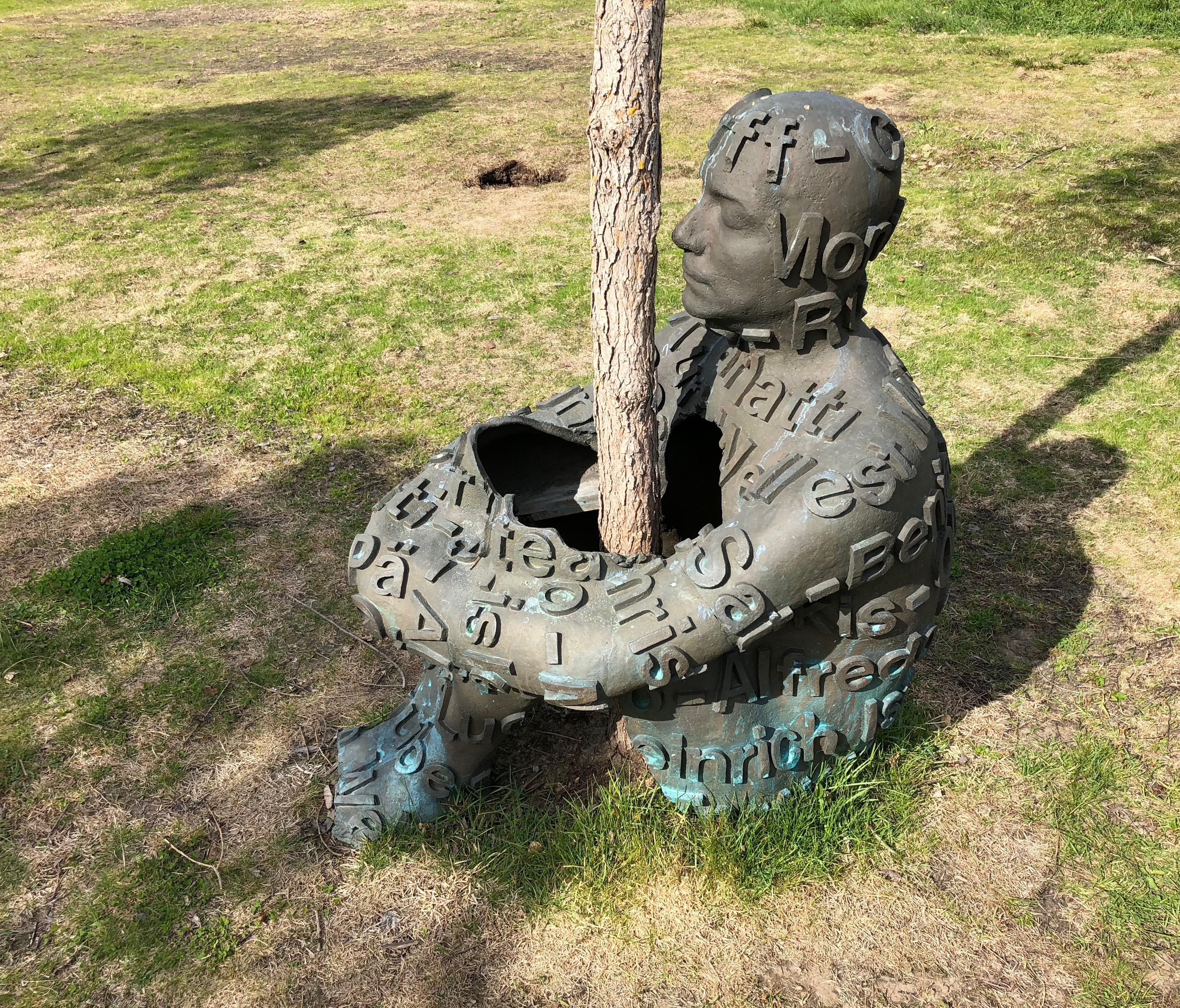 Heart of Trees, sculpture by Jaume Plensa in Öbacakparken, Umeå, Sweden.